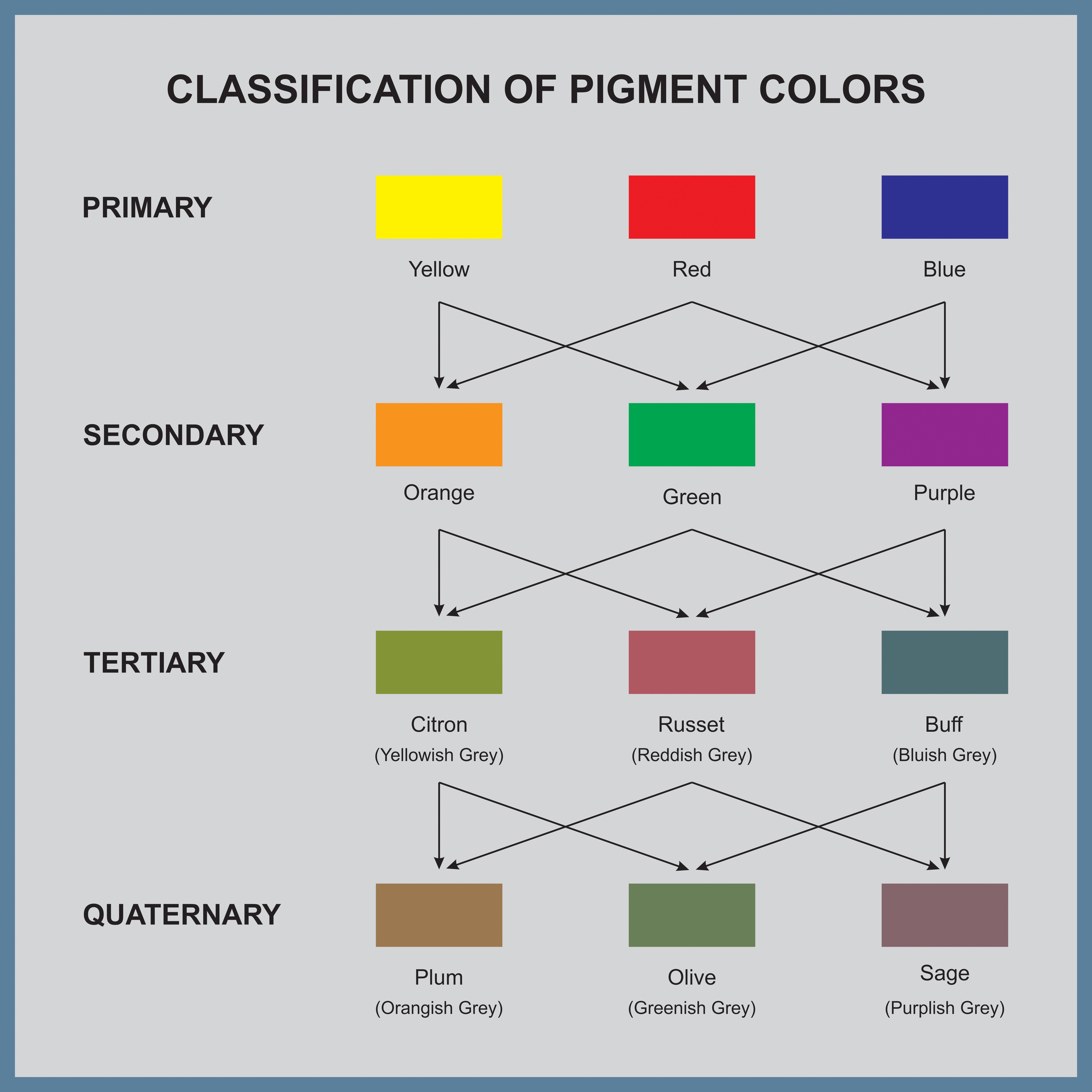 This file is all about color theory!